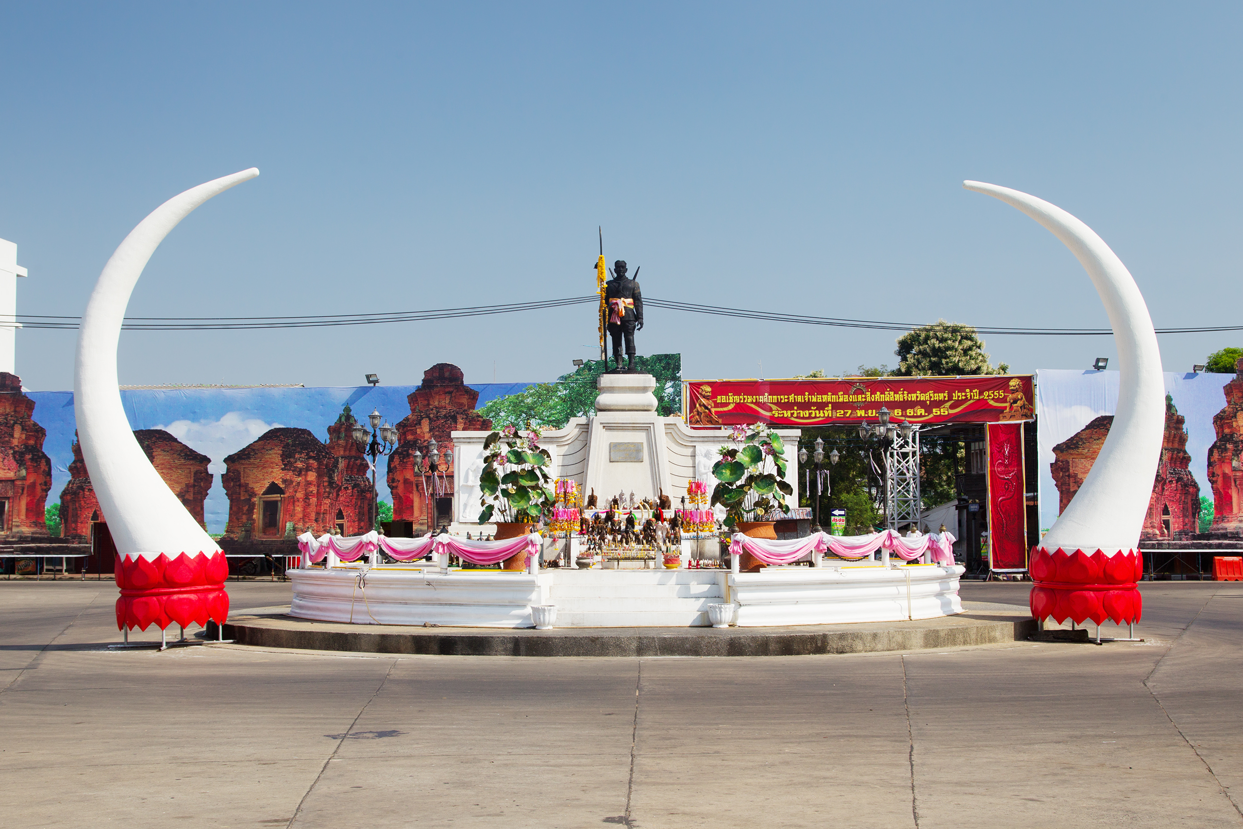 The Monument of Phaya Surin Phakdi Si Narong Changwang, Surin City, Surin, Thailand